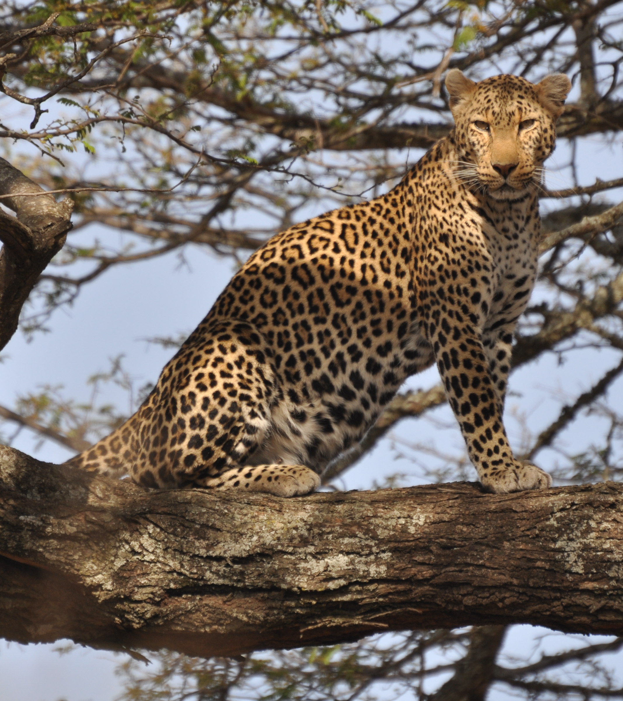 leopard standing in a tree in the central Serengeti